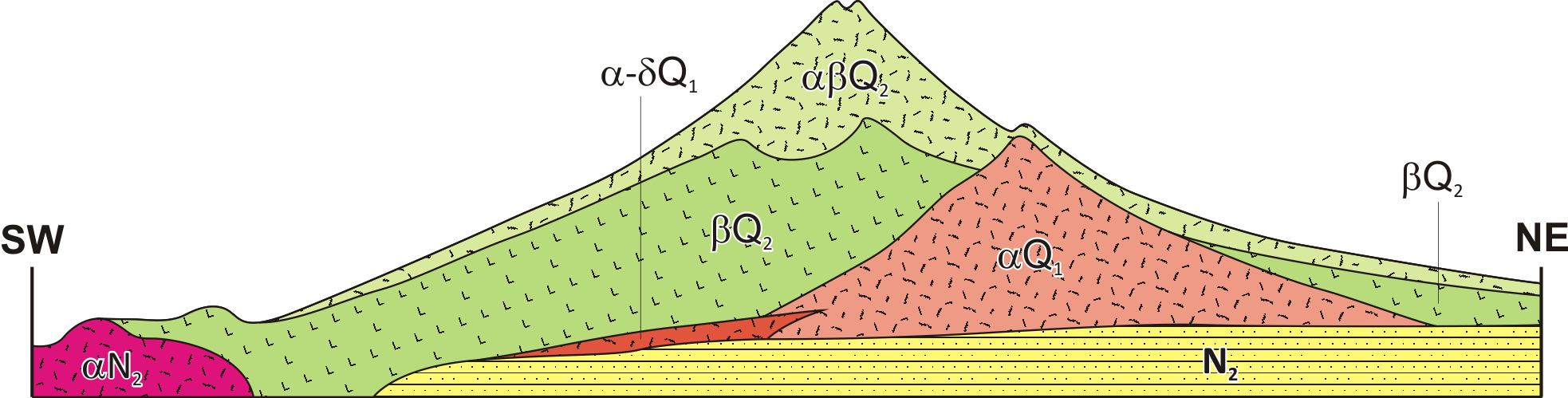 Geological cross-section of Fuji. Key: N2 = Tertiary sedimentary rocks; αN2 = Tertiary volcanic rocks; αQ1 = Komitake volcano; α-δQ1 = Ashitaka volcano; βQ2 = Older Fuji volcano; αβQ2 = Younger Fuji volcano. (source for key